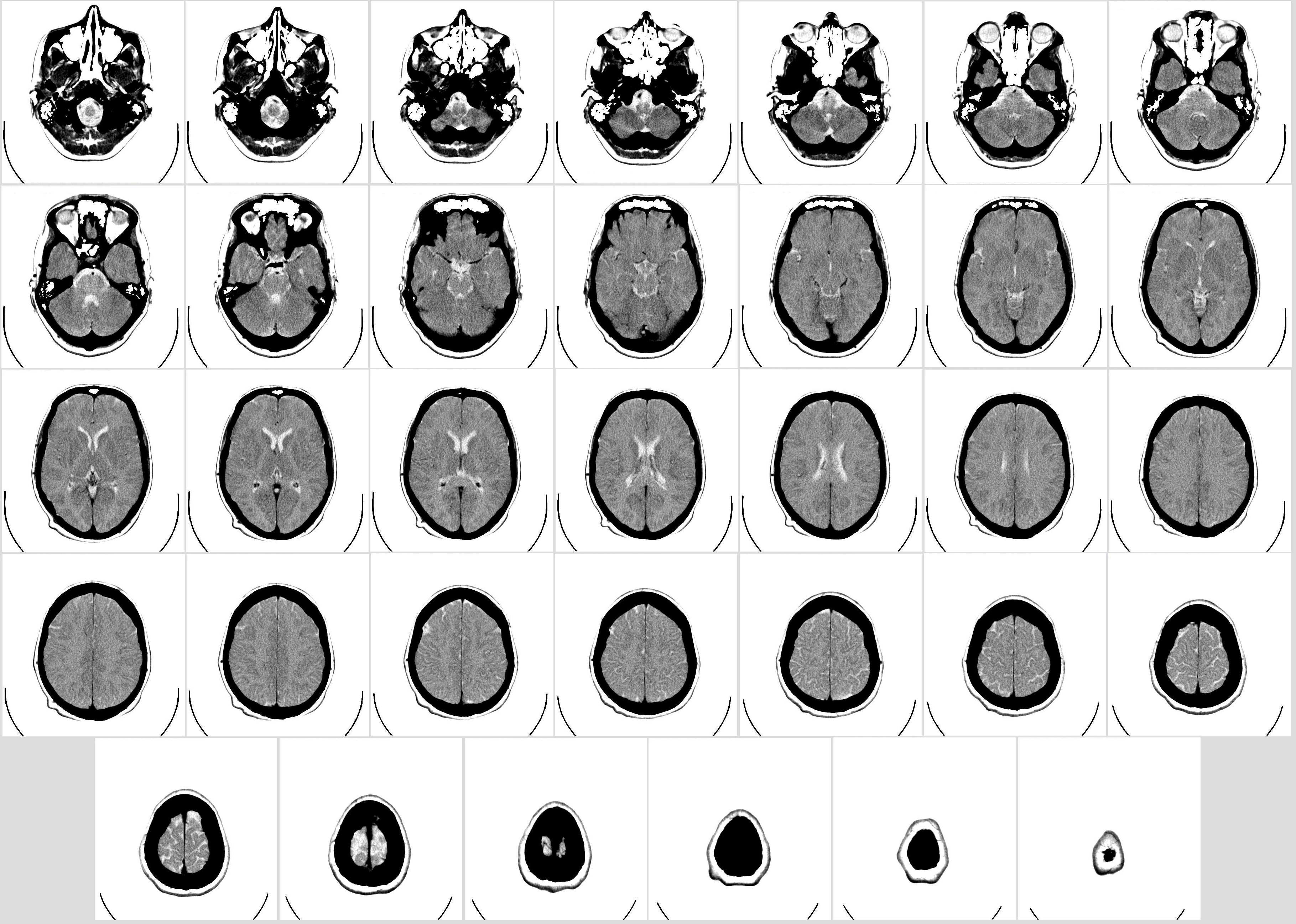 Computer tomography of human brain, from base of the skull to top. Taken with intravenous contrast medium. It was taken Mars 23, 2007 on the uploader, after a 20 minute episode of homonymous hemianopsia with loss of the left visual field, but nothing strange was found. Three episodes of scotoma occurred in the following years, whereof the last one was scintillating (depiction). Otherwise, there were no further neurological symptoms.